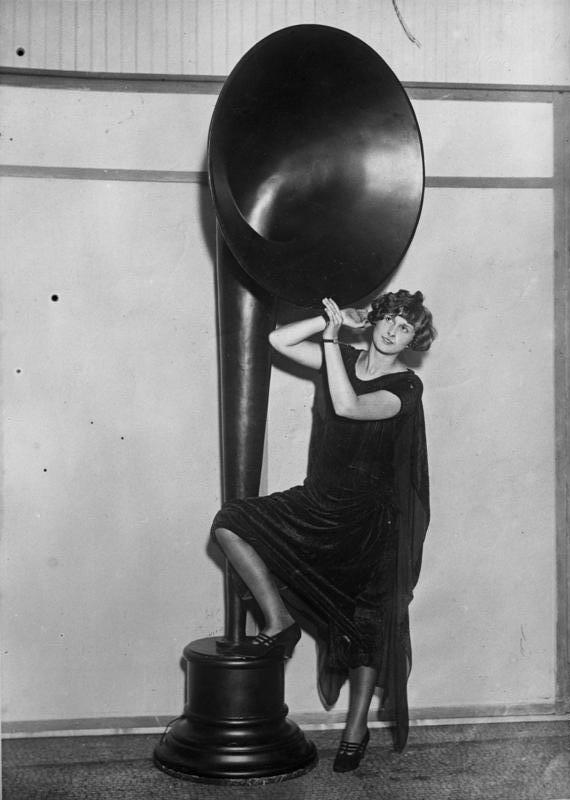 Giant horn loudspeaker at Berlin Radio Exhibition. During most of the 1920s, radios ran on batteries, and the early vacuum tubes could not produce much audio power. So the first loudspeakers, used with the first vacuum tube radios were horn loudspeakers, because the horn was more efficient. Horns can produce 10 times (10 dB) more sound power from a given audio signal than the later cone speakers. However ordinary-size horns have a high bass cutoff frequency and so cannot reproduce bass frequencies, so they sound "tinny". This is a "high fidelity" horn speaker, large enough so it's bass cutoff is low enough to allow more natural reproduction of concert music. Original caption: Interesting curios at the radio exhibition at the Imperial Dam in Berlin! A giant speakers on the issue.